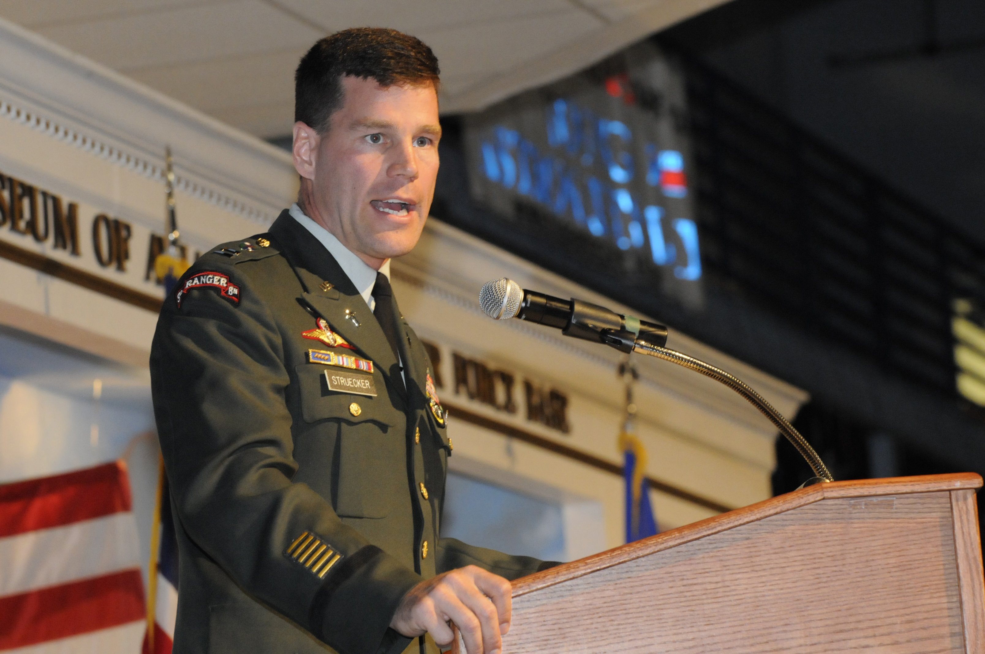 Chaplain (Captain) Jeff Struecker was guest speaker at Robins Air Force Base National Prayer Luncheon March 10 at the Museum of Aviation.